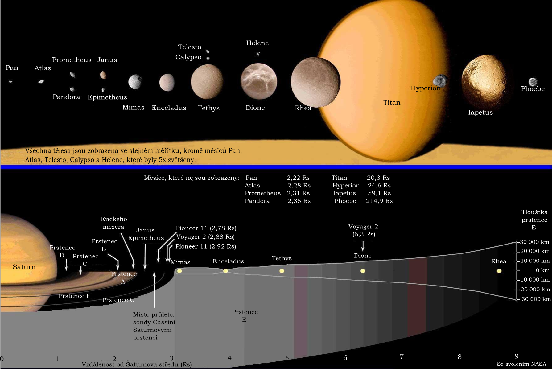 Map of the Saturn system (NASA)